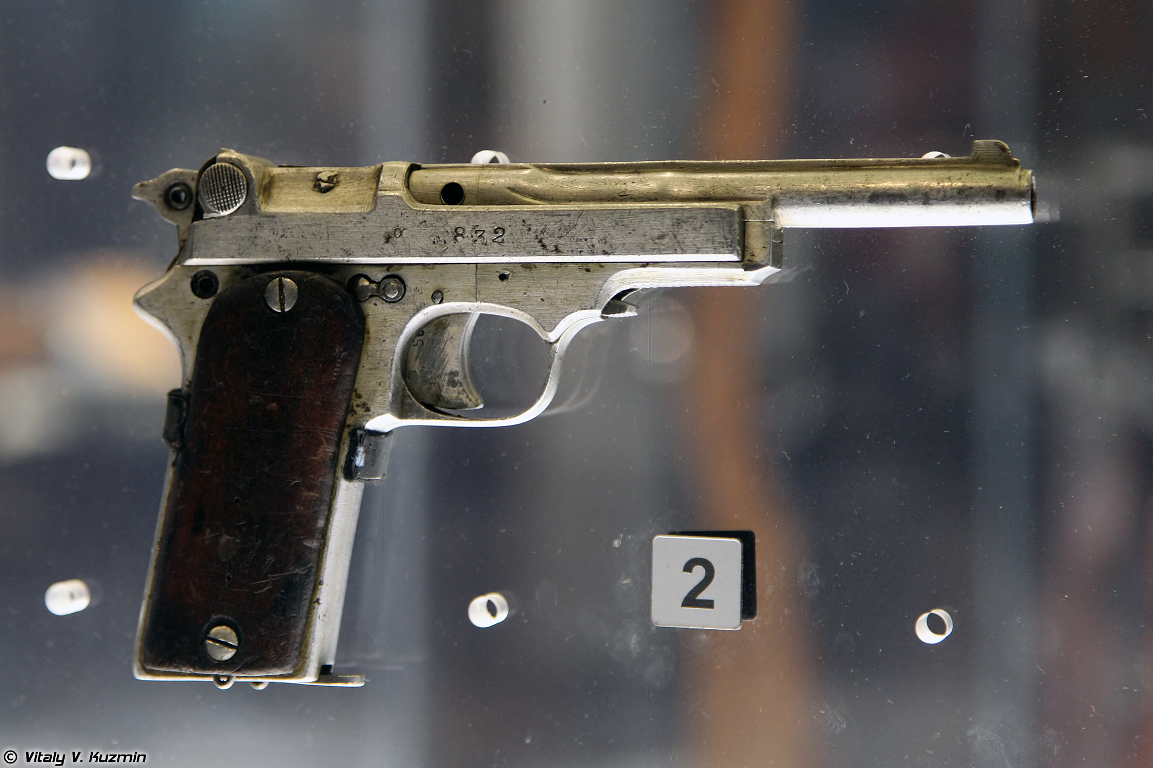 Star Model 1914